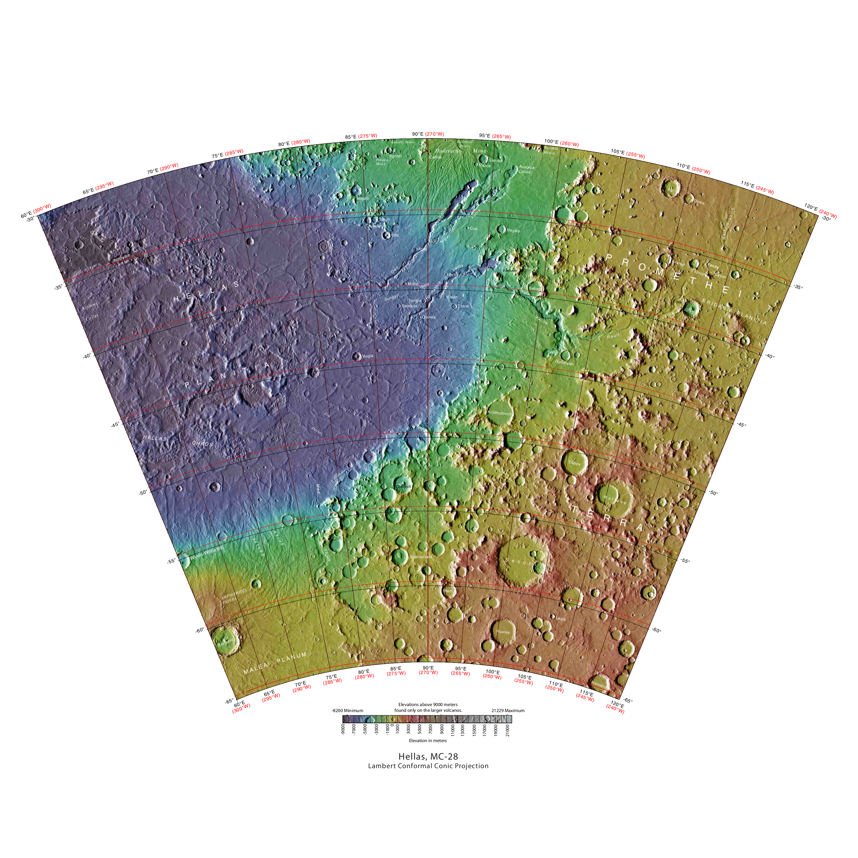 MOLA Topographic Map of Hellas Quadrangle (MC-28) on the planet Mars. NOTE: Converted the original PDF file to a PNG File (via GIMP v2.8.4 program) - and uploaded to Wikimedia Commons.